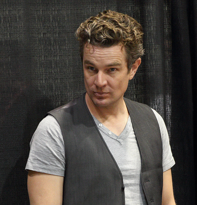 Photo taken by Rebecca Appleberry. This photo is not in the public domain. It may, however, be used, modified and published for any purpose, free of charge, only if the photographer is properly credited, either by linking the photograph to this page, or with an easily visible credit to the photographer placed near the photo in each instance in which it is used. (See licensing information below.) Publication of this photo without this proper attribution constitutes copyright infringement.